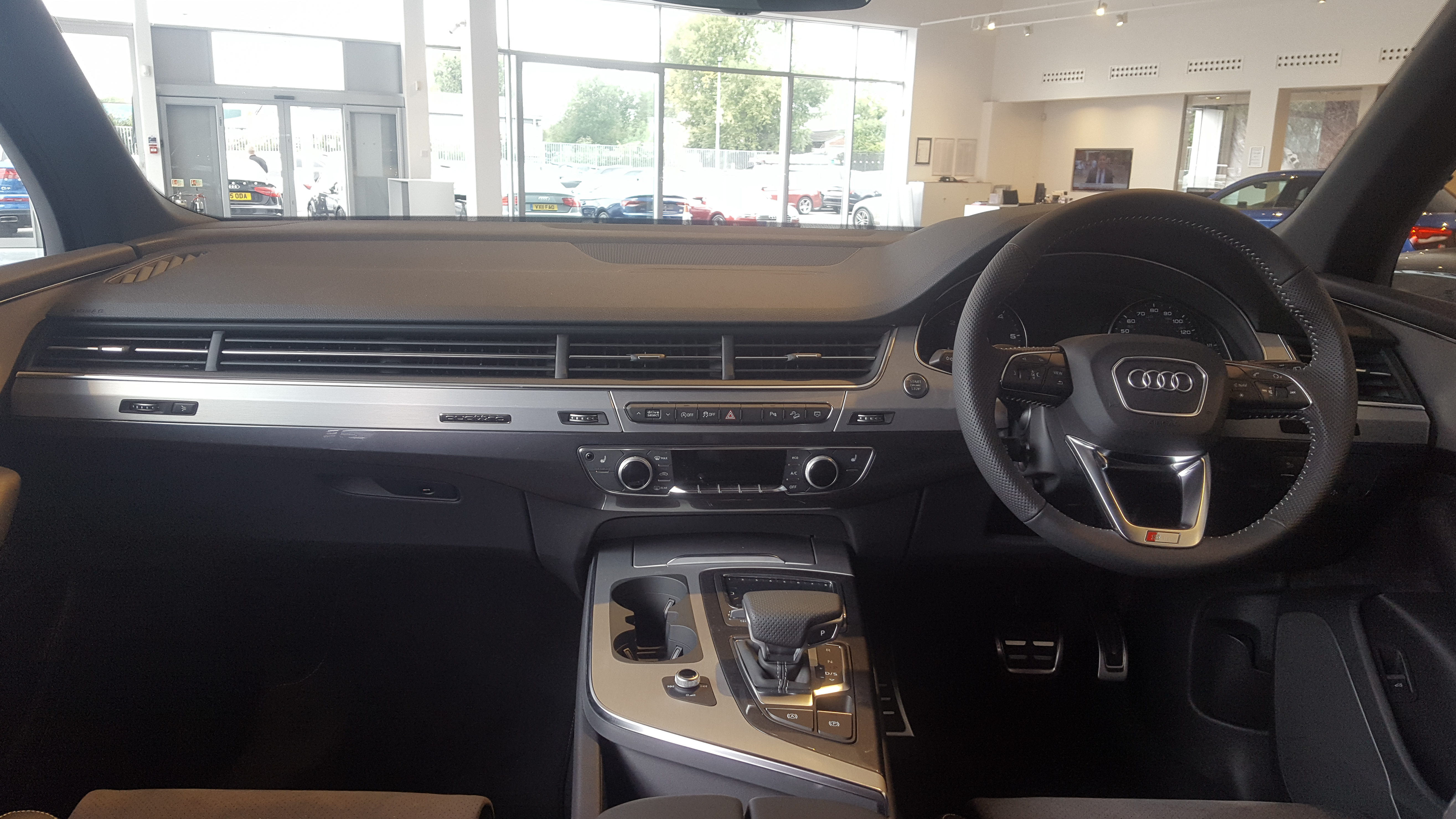 2018 Audi Q7 TDi V6 Quattro 3.0 Interior Taken in Stratford-upon-Avon